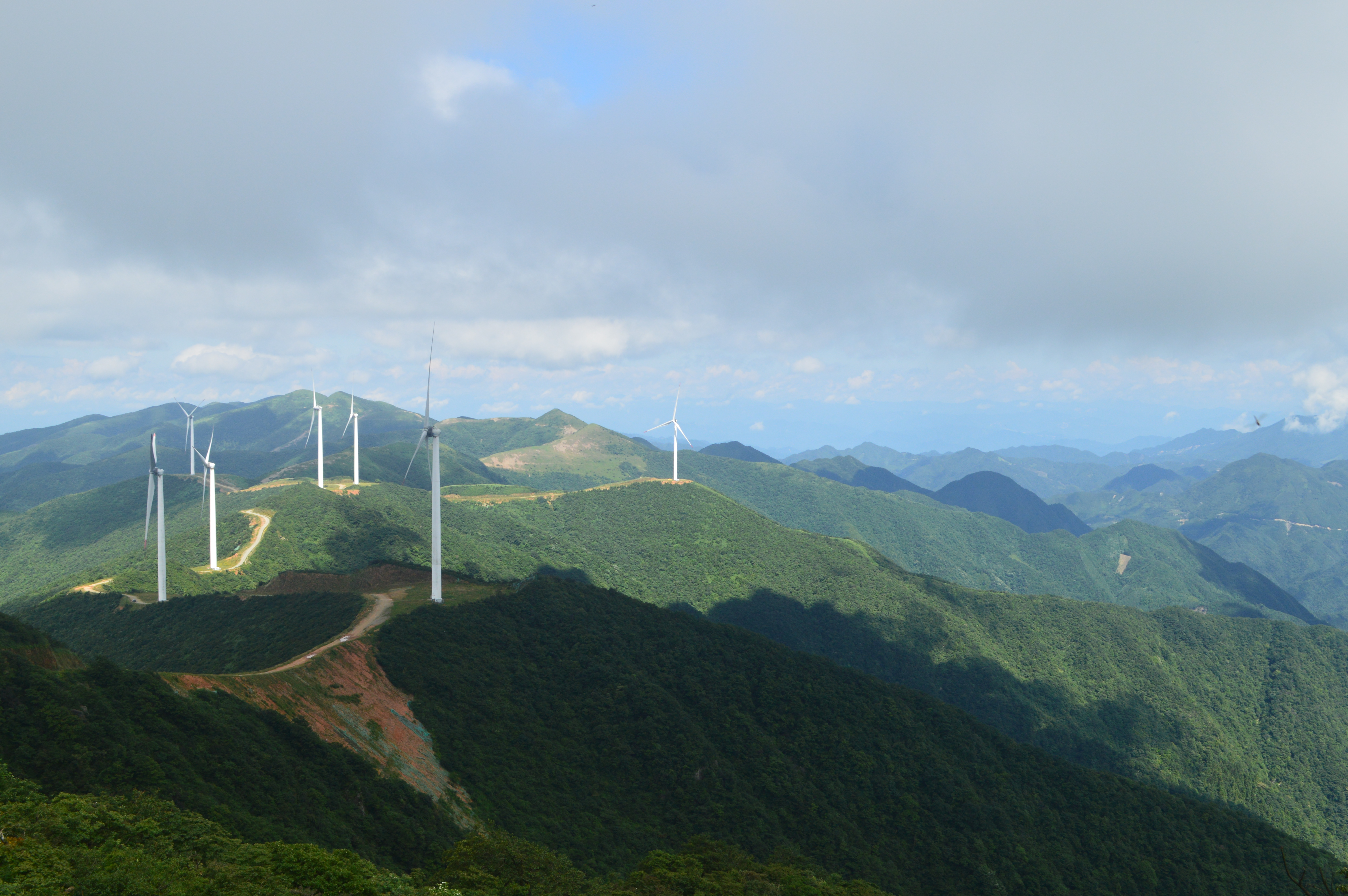 Mount Langshan in Xinning County, Hunan, China. It was made a UNESCO World Heritage Site on August 2, 2010.